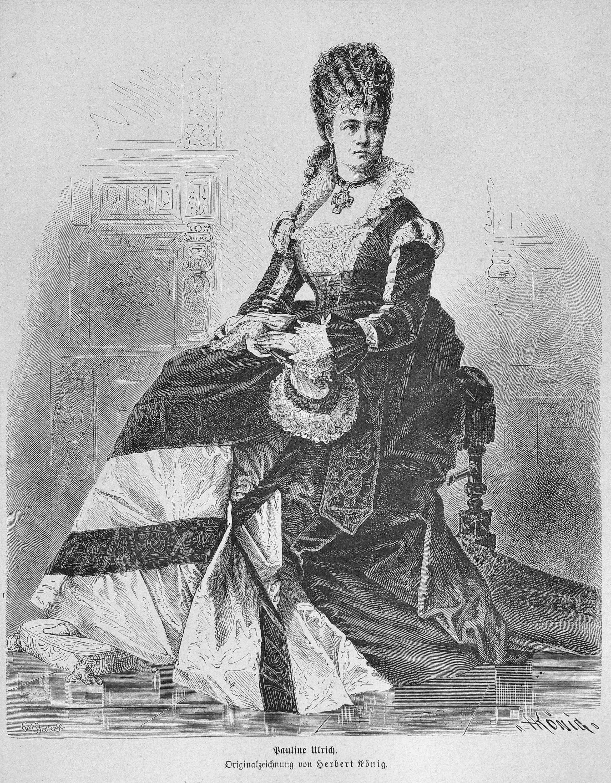 caption: "Pauline Ulrich. Originalzeichnung von Herbert König."